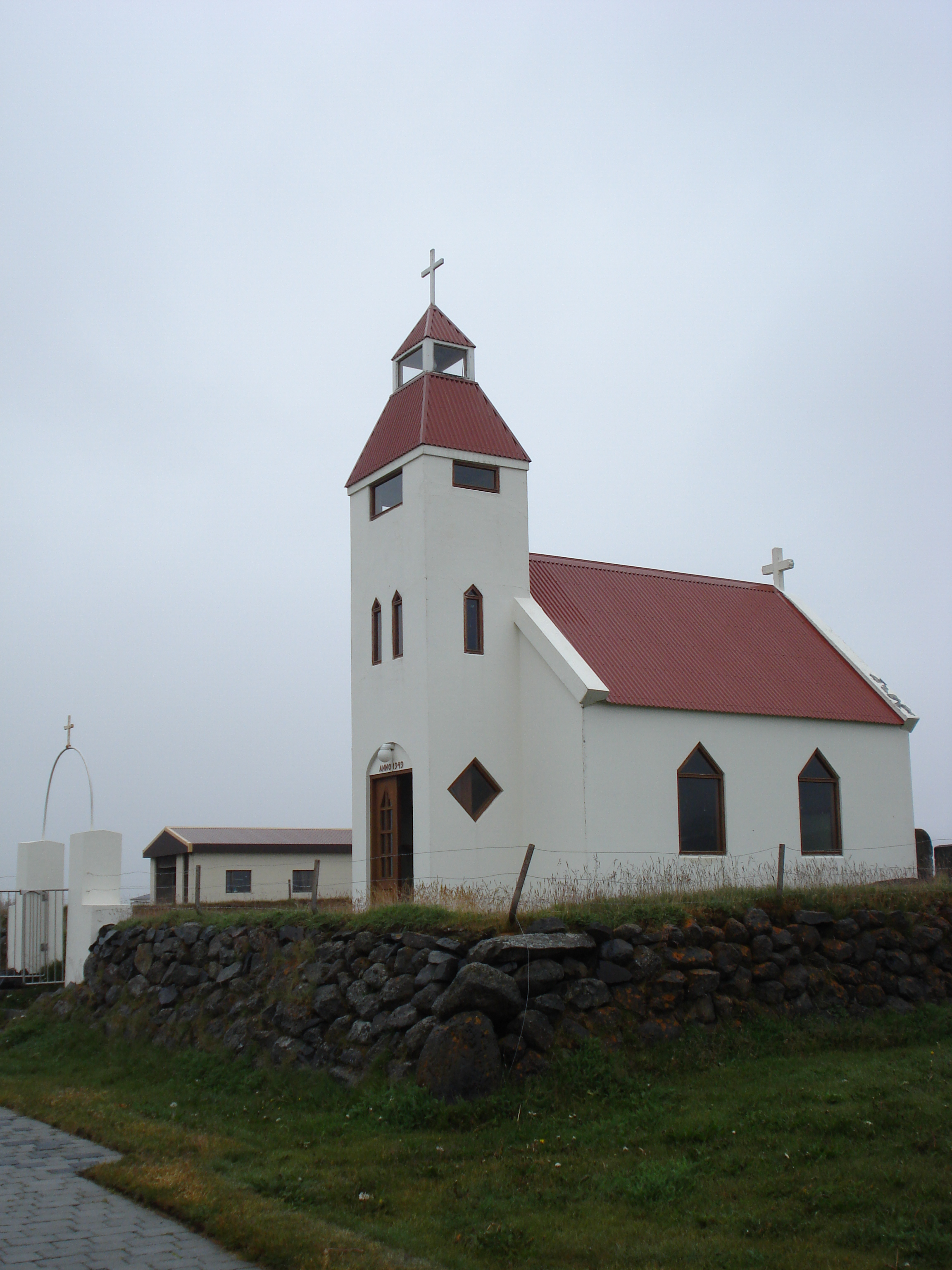 Church of Möðrudalur, Iceland